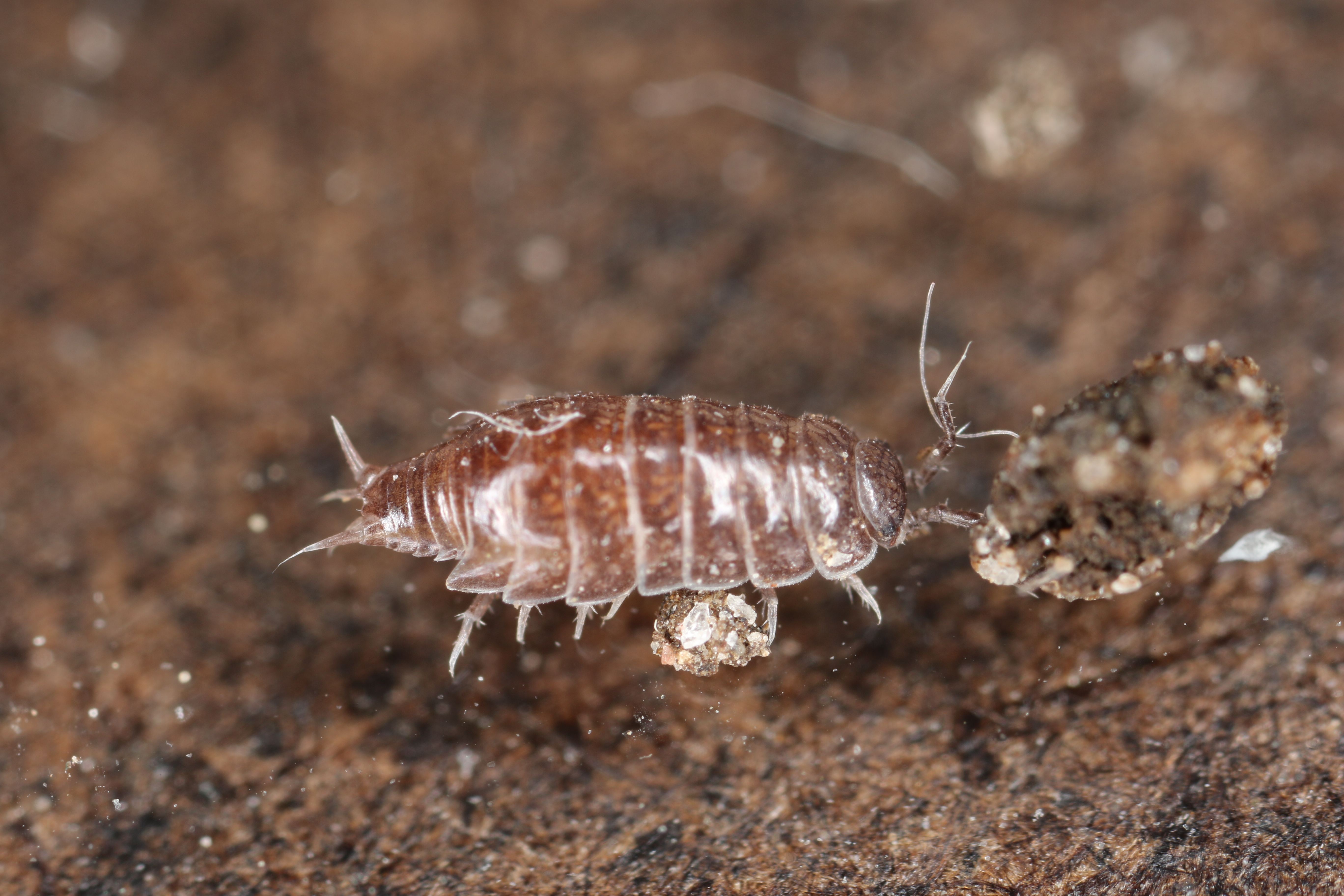 Trichoniscus pusillus Brandt, 1833, Søborg, Denmark, 17 April 2016